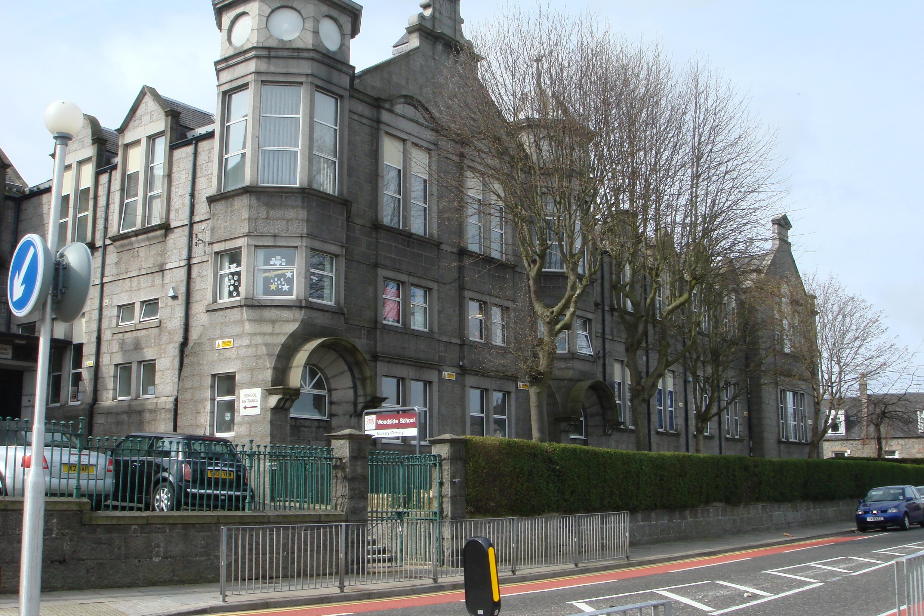 View of Woodside School